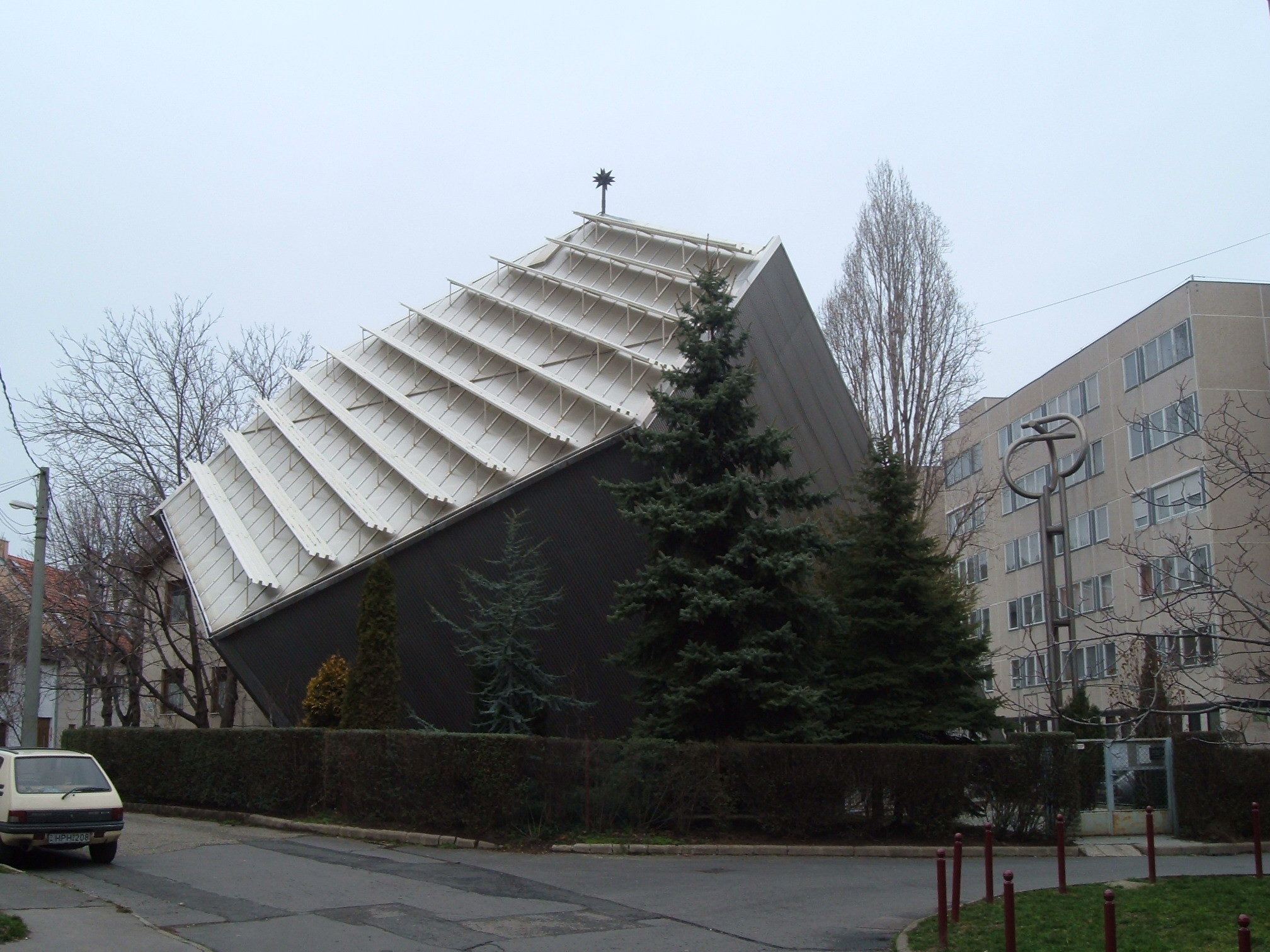 Calvinist Church on Ildikó tér, Budapest. Architect: István Szabó.